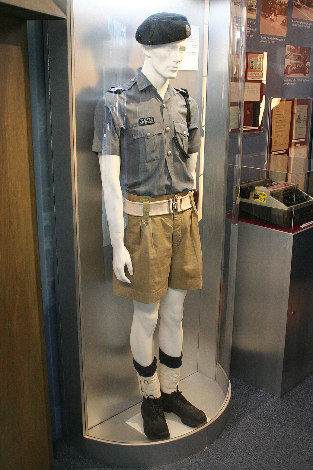 Description: Display of the old khaki police uniform at Jurong Police Division Headquarters Source: Self-made Location: Jurong Police Division Headquarters, Singapore Date: 12/12/2005 16:25 Photographer/Painter: Huaiwei